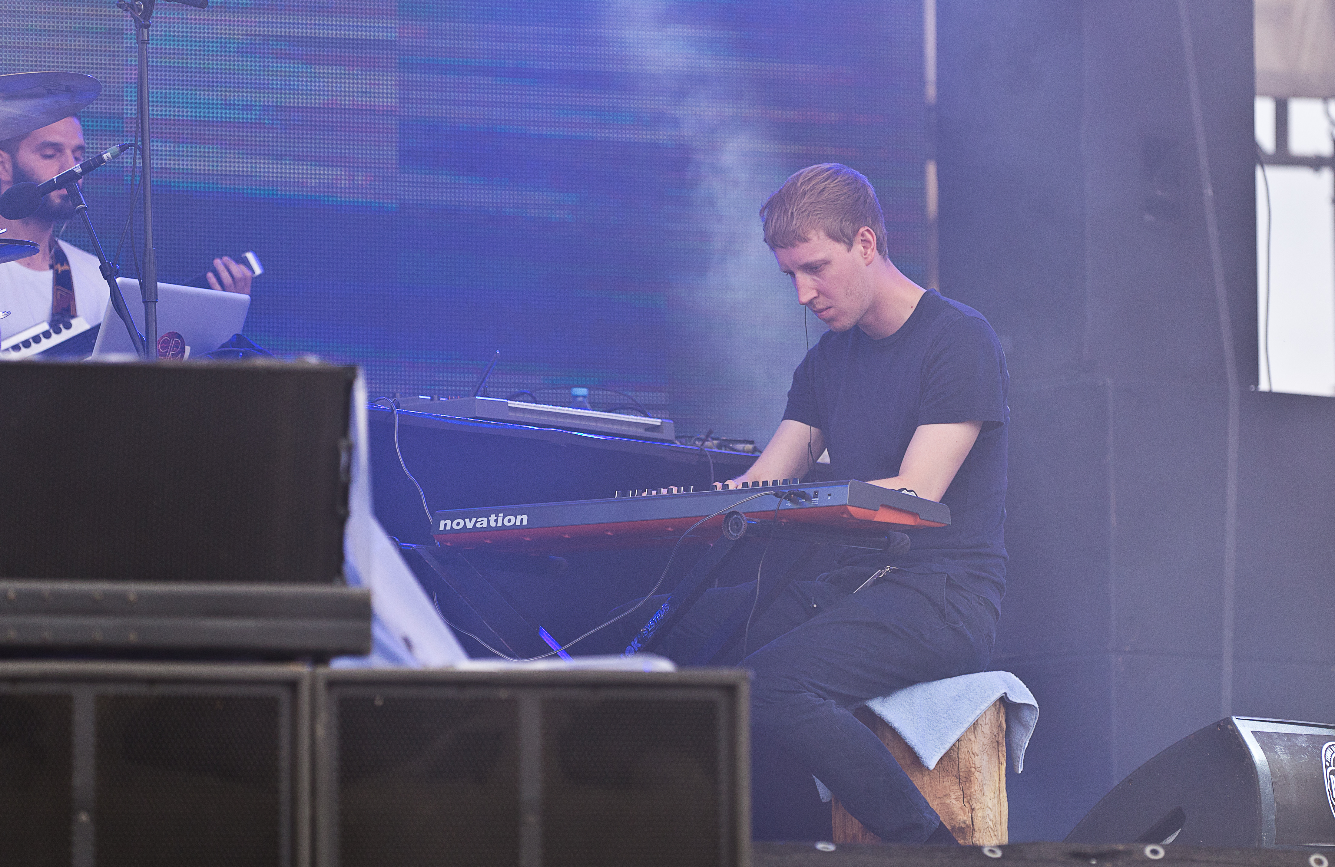 The Austrian composer Dorian Concept at the Melt! 2015 in Ferropolis/Germany.